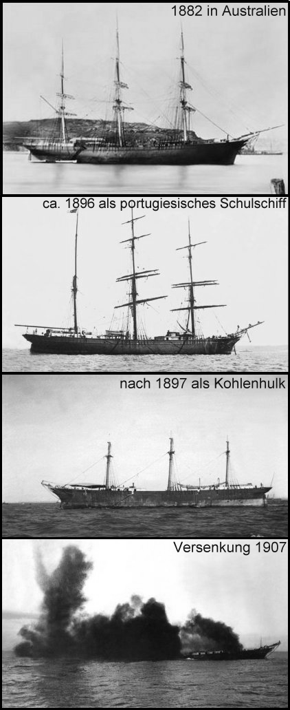 Old photos of the Klipper Thermopylae (four Photos in one).